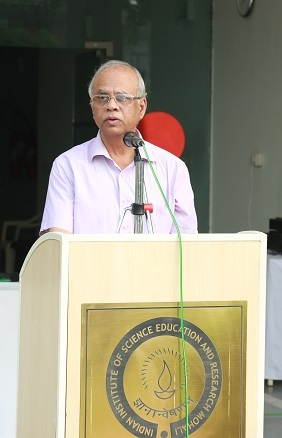 img